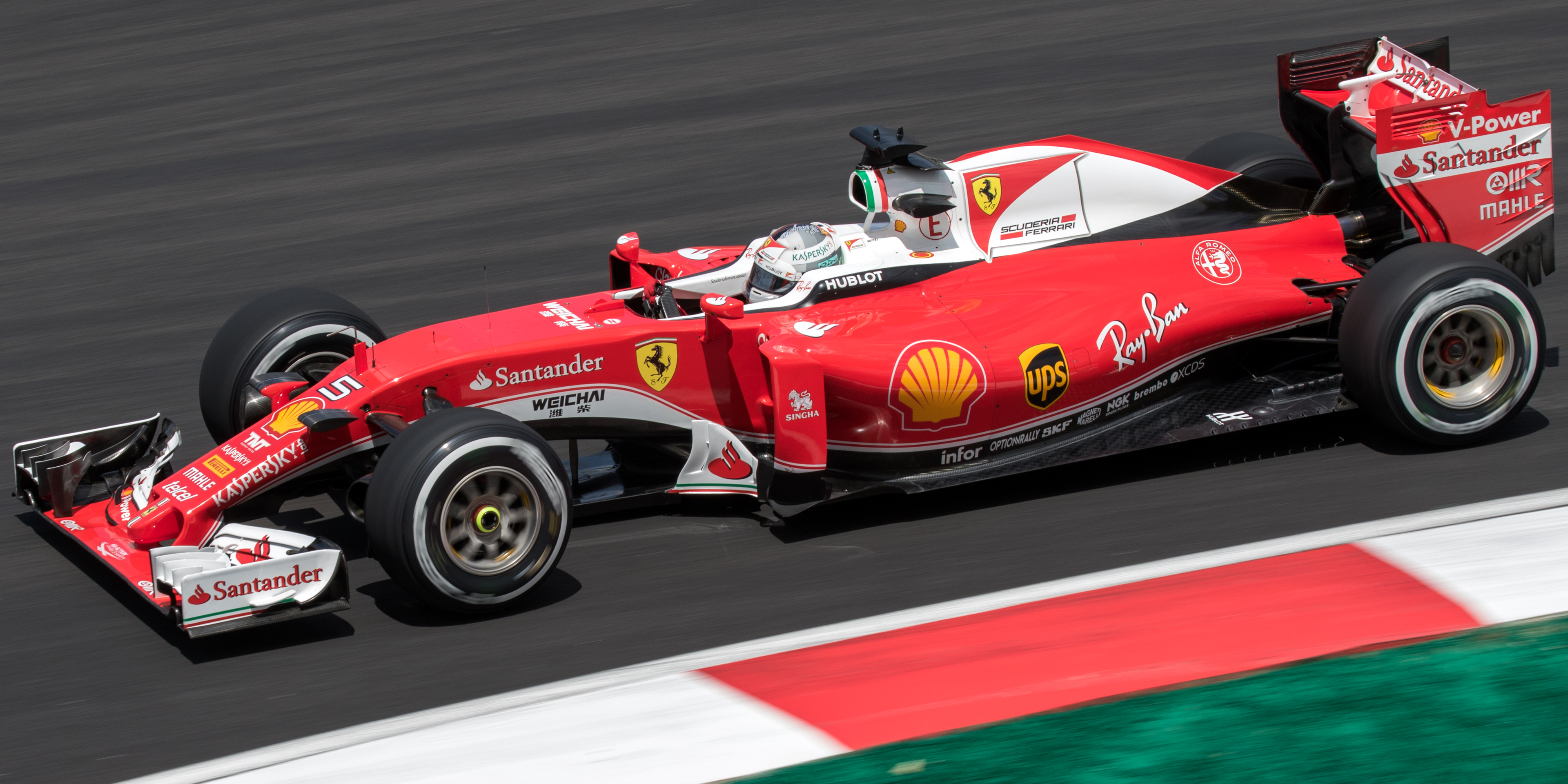 Formula One 2016 Rd.16 Malaysian GP: Sebastian Vettel (Ferrari)